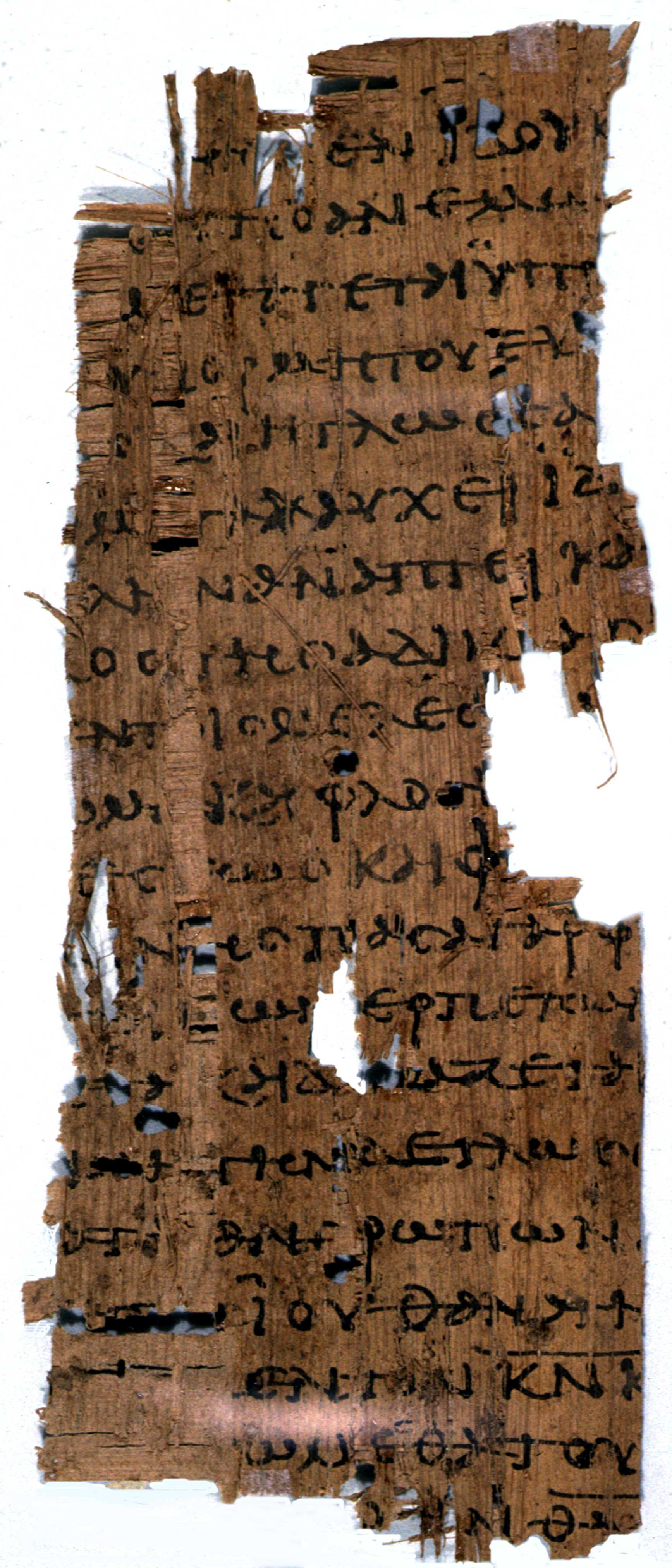 fragment of Epistle of James, verso